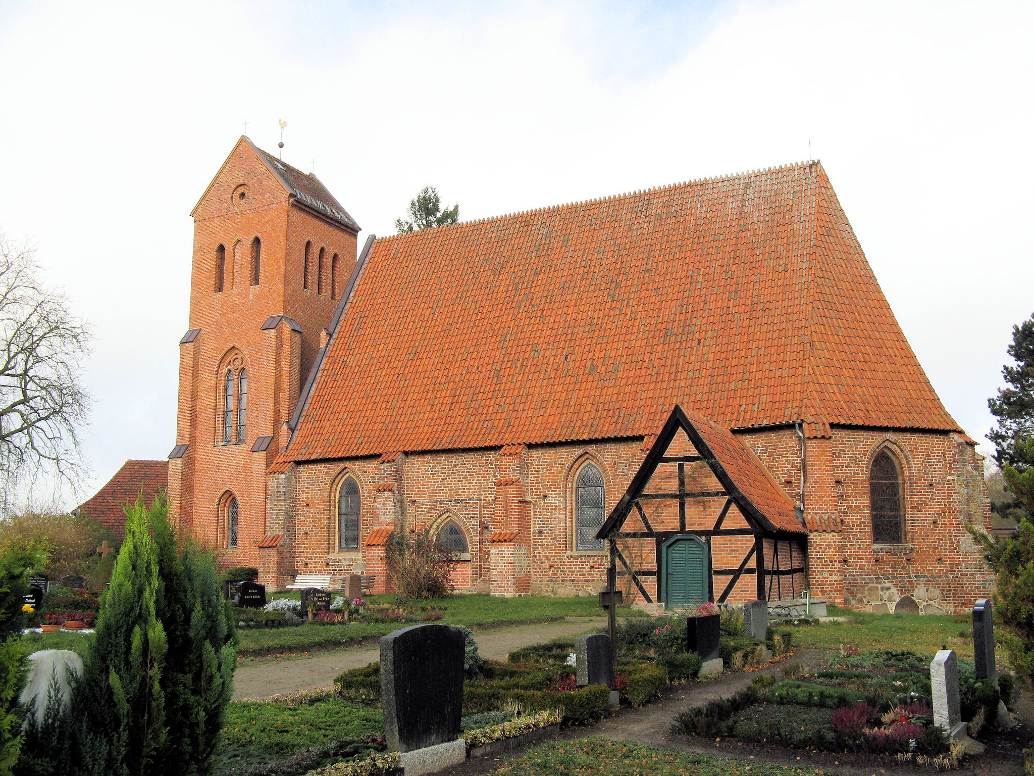 Church in Cramon, Mecklenburg-Vorpommern, Germany